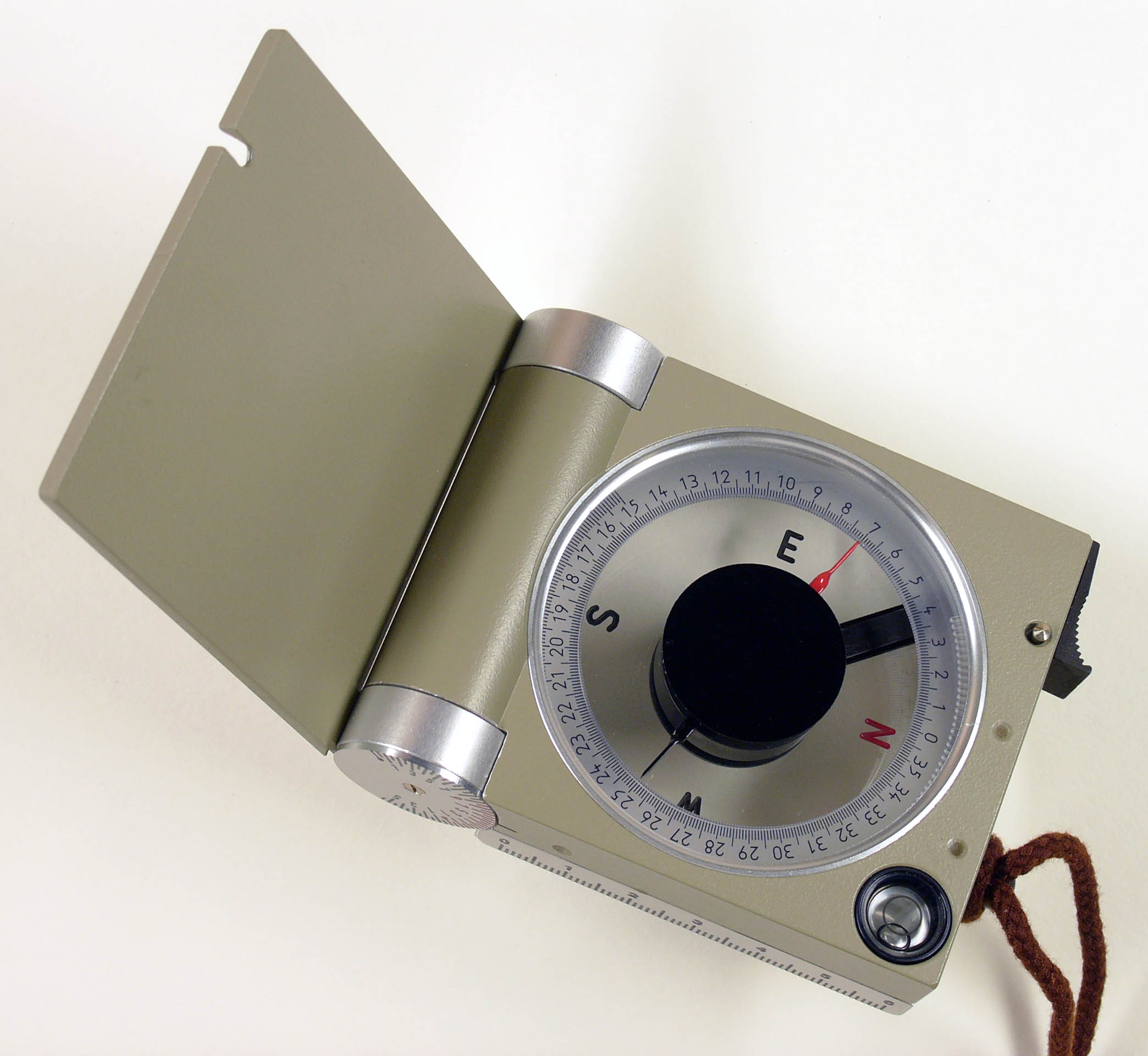 Geological stratum compass after Prof. Clar